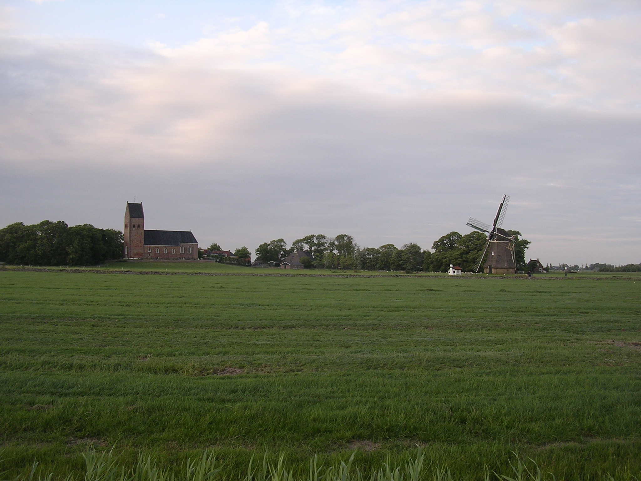 the village of Wânswert from the west